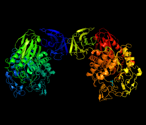 View of Thermoactinomyces vulgaris neopulullanase showing dimeric structure (created from structure at